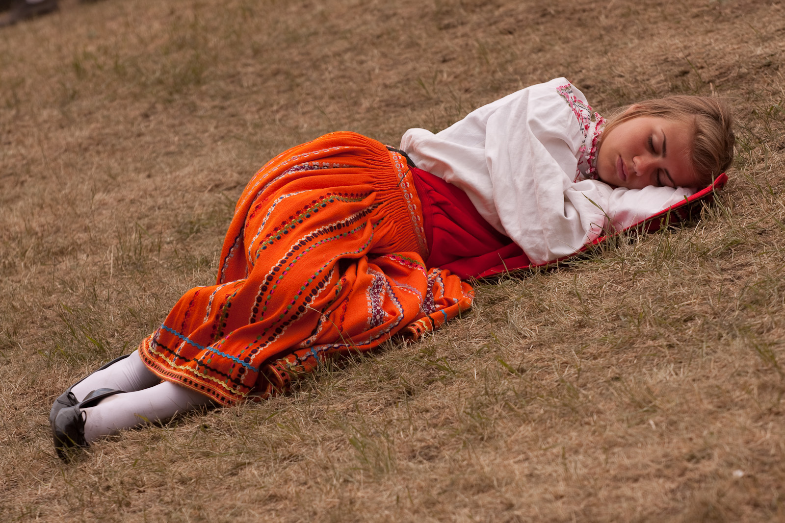 Sleeping beauty